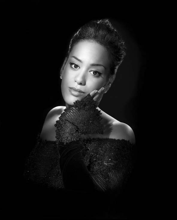 Amel Bent photographed by Studio Harcourt Paris